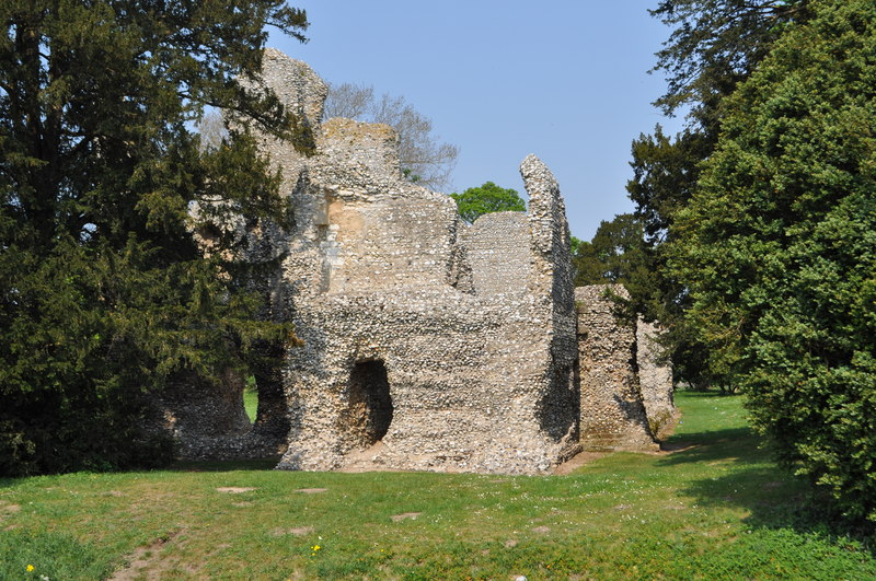 Weeting Castle, near to Weeting, Norfolk, Great Britain. Weeting Castle is a 12th-century ruin with a three-story-high tower in Weeting, near Brandon, Norfolk. Despite the name, it is not a castle but actually a fortified manor house. It has a large open hall and an attached two-storey chamber block. There's a domed brick ice-house on the northwest corner of the moat and a small car park next to the church. The moat was added in the 14th century. The place is thought to have been abandoned in 1390. The manor was built on a 10th C settlement. It is now owned by English Heritage. Entry is free and the location is open all year for visitors.